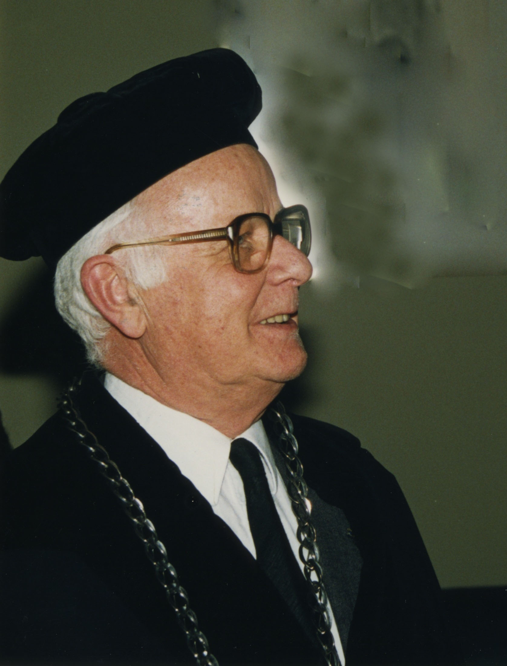 Jan Beenakker, 1926-1998. Dutch physicist & rector magnificus at Leiden University (The Netherlands)